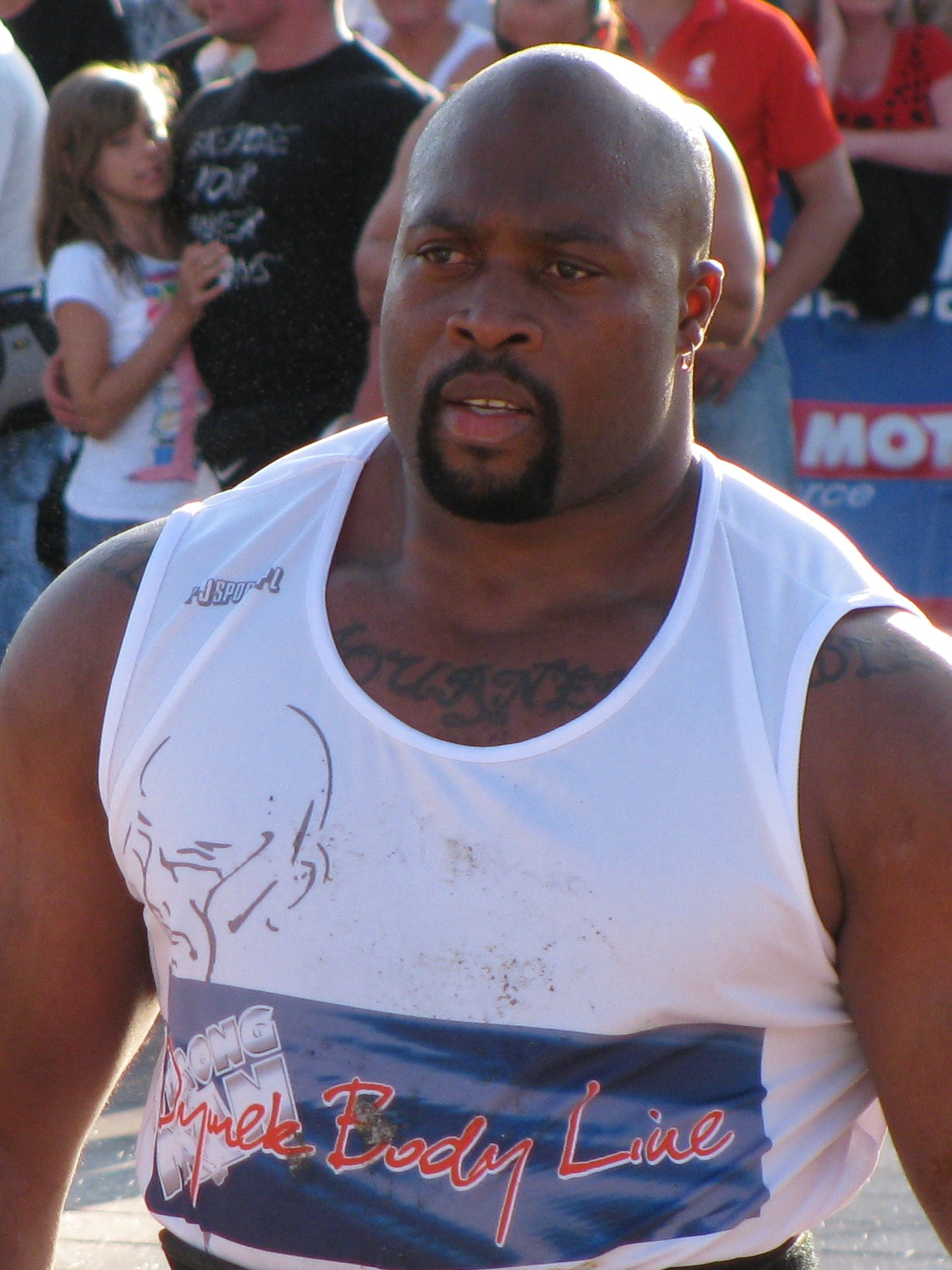 Mark Felix - a strength athlete from Grenada & England